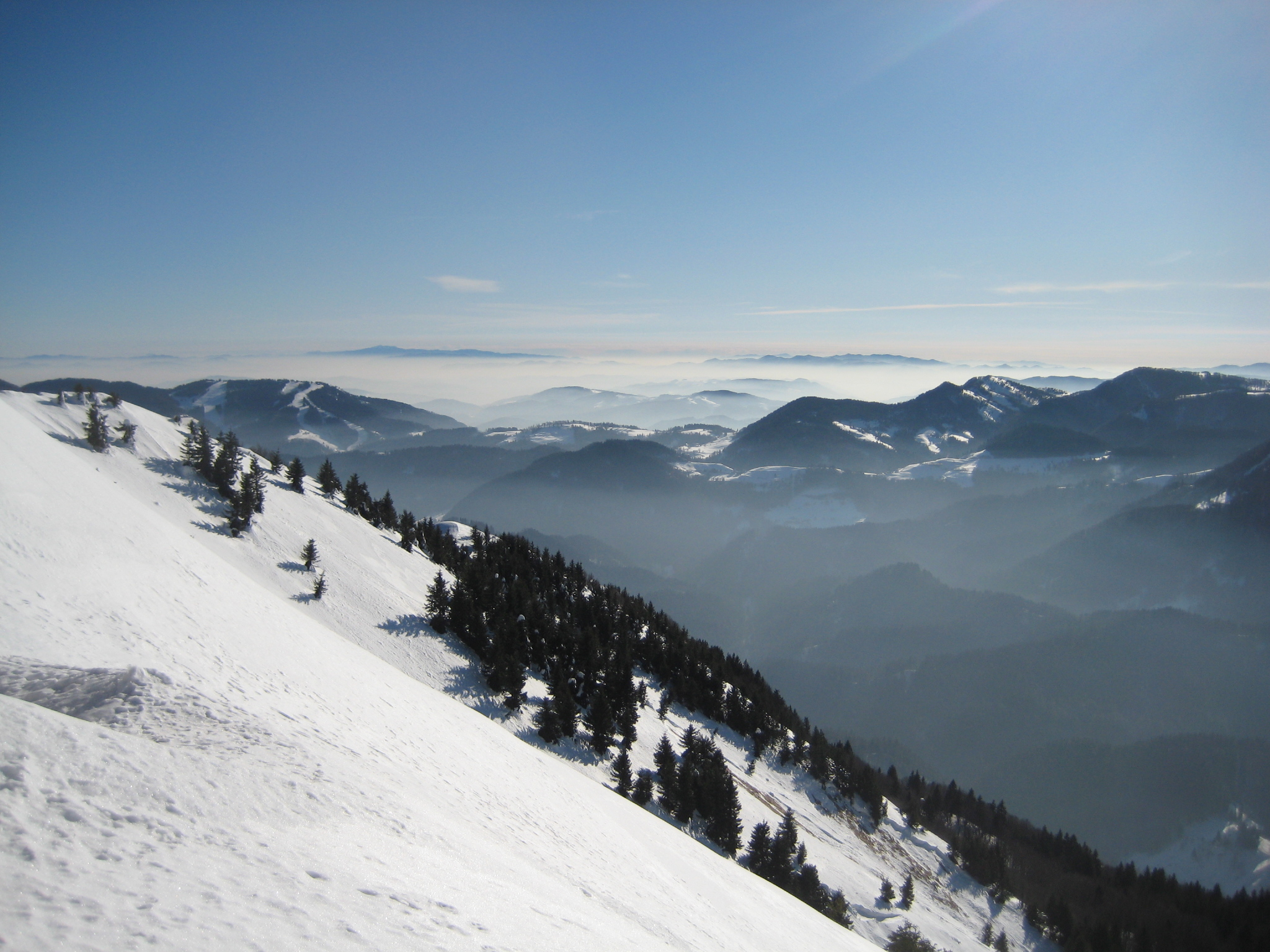 Cerkljansko hribovje, Slovenija